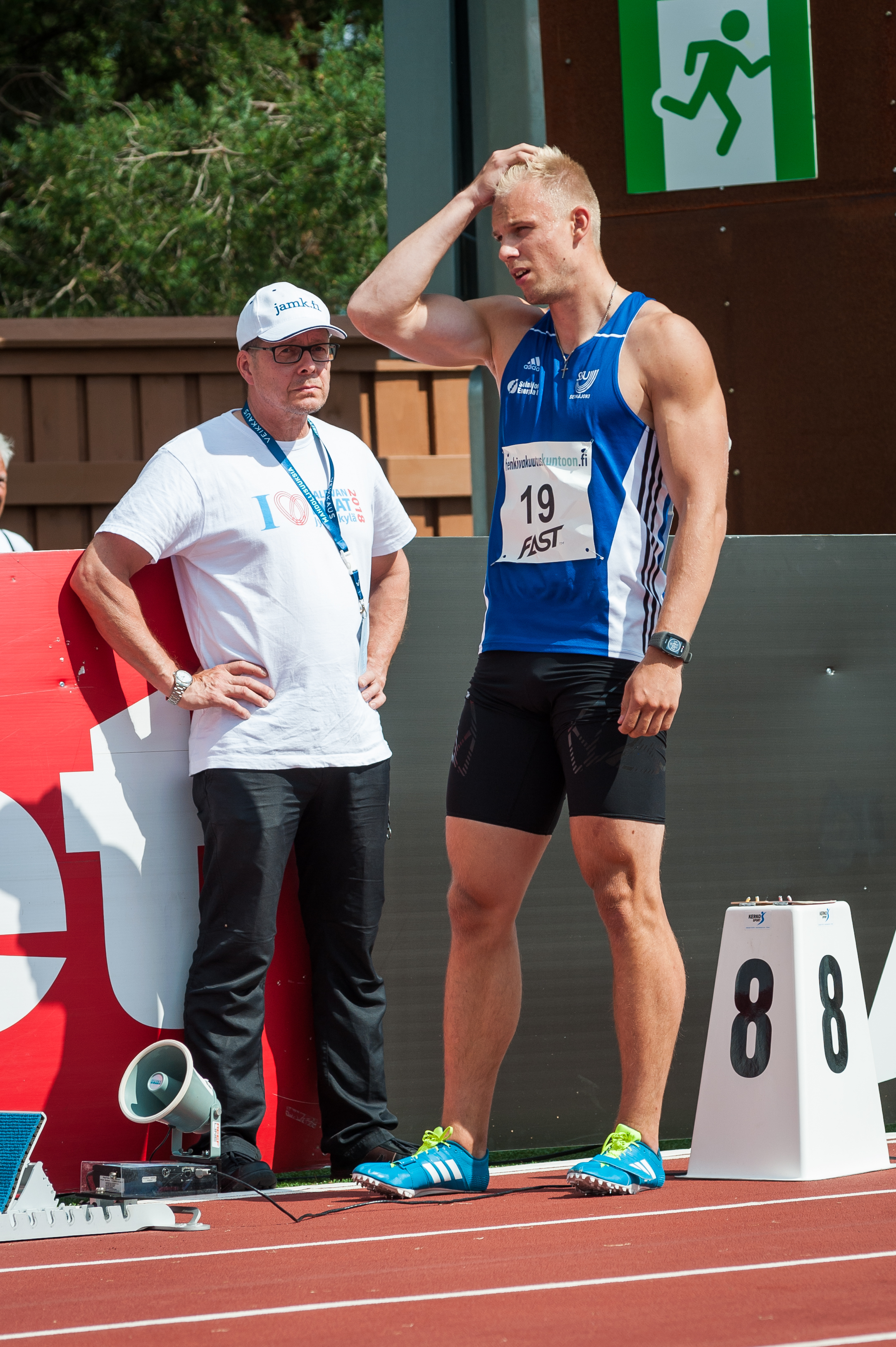 Men's 200 m competition at the 2018 Kalevan Kisat, the Finnish championships in athletics, in Jyväskylä, Finland.